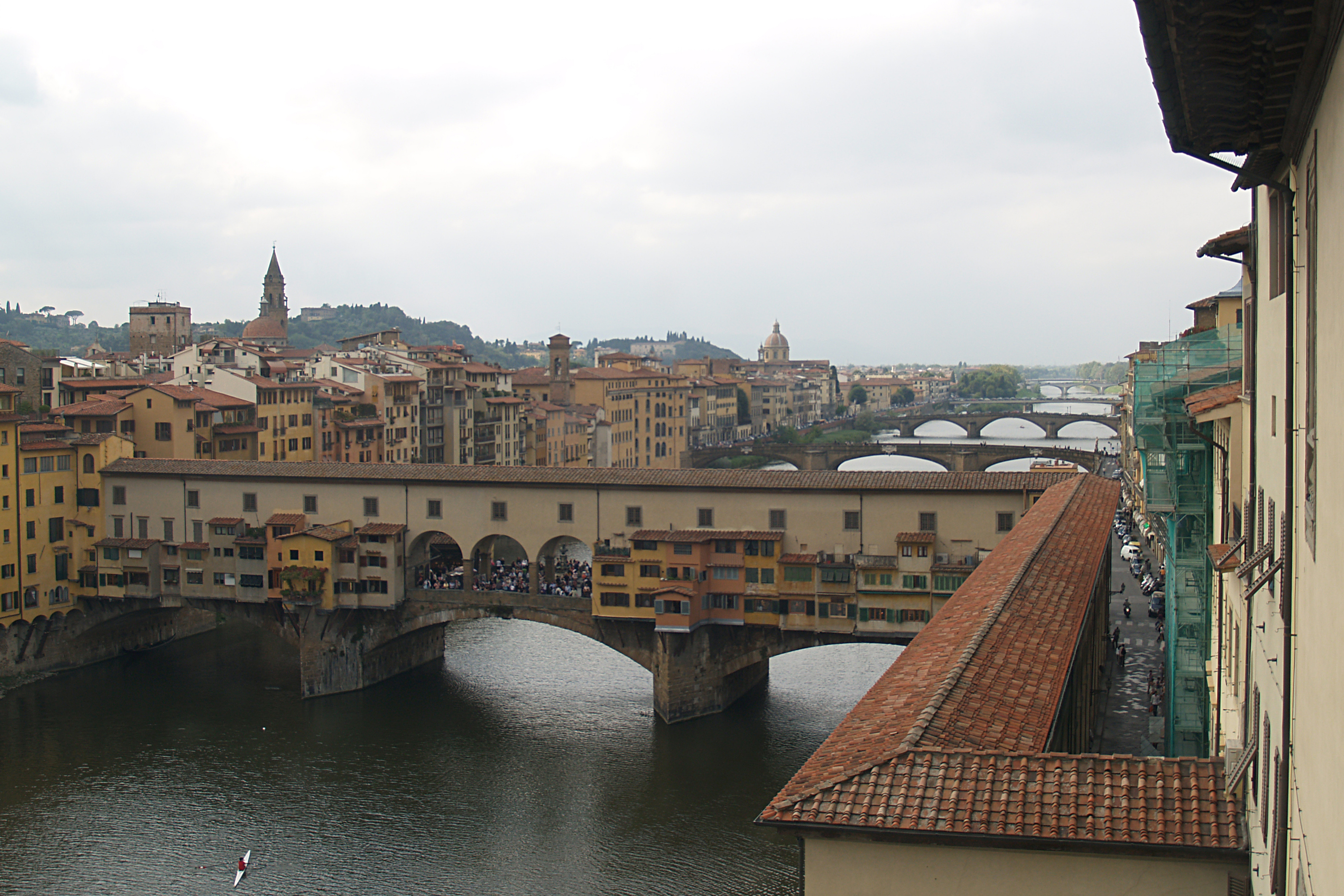 Vasari Corridor between Uffici Gallery and the opposite side over Ponte Veccio